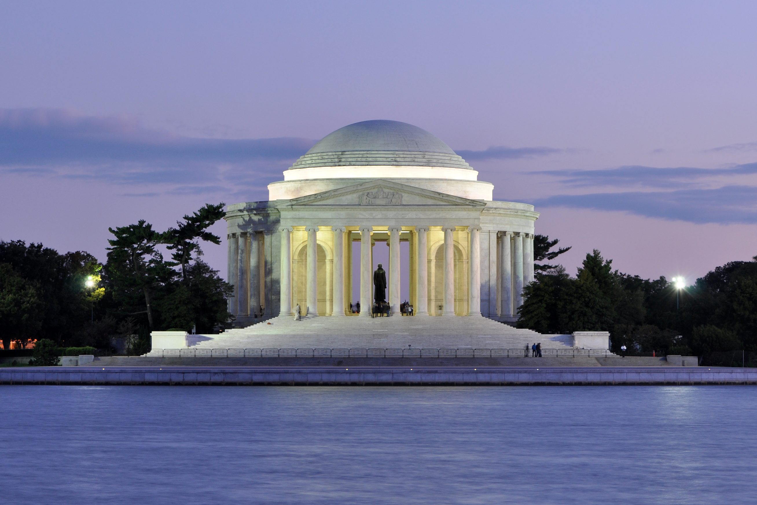 Jefferson Memorial seen across the Tidal Basin at dusk in Washington, D.C., USA.